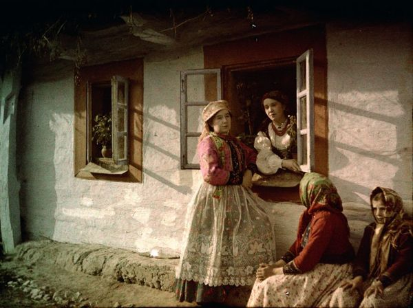 In Bronowice (now part of Kraków, Poland)